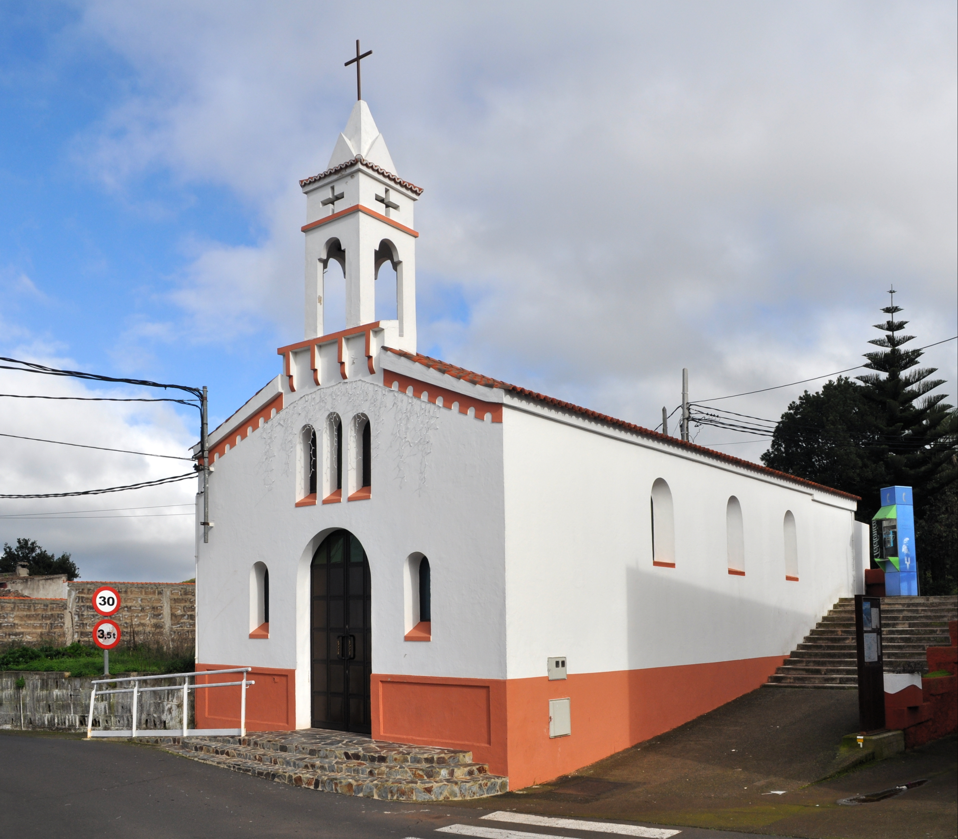 La Sagrada Familia church in Erjos de El Tanque, Tenerife